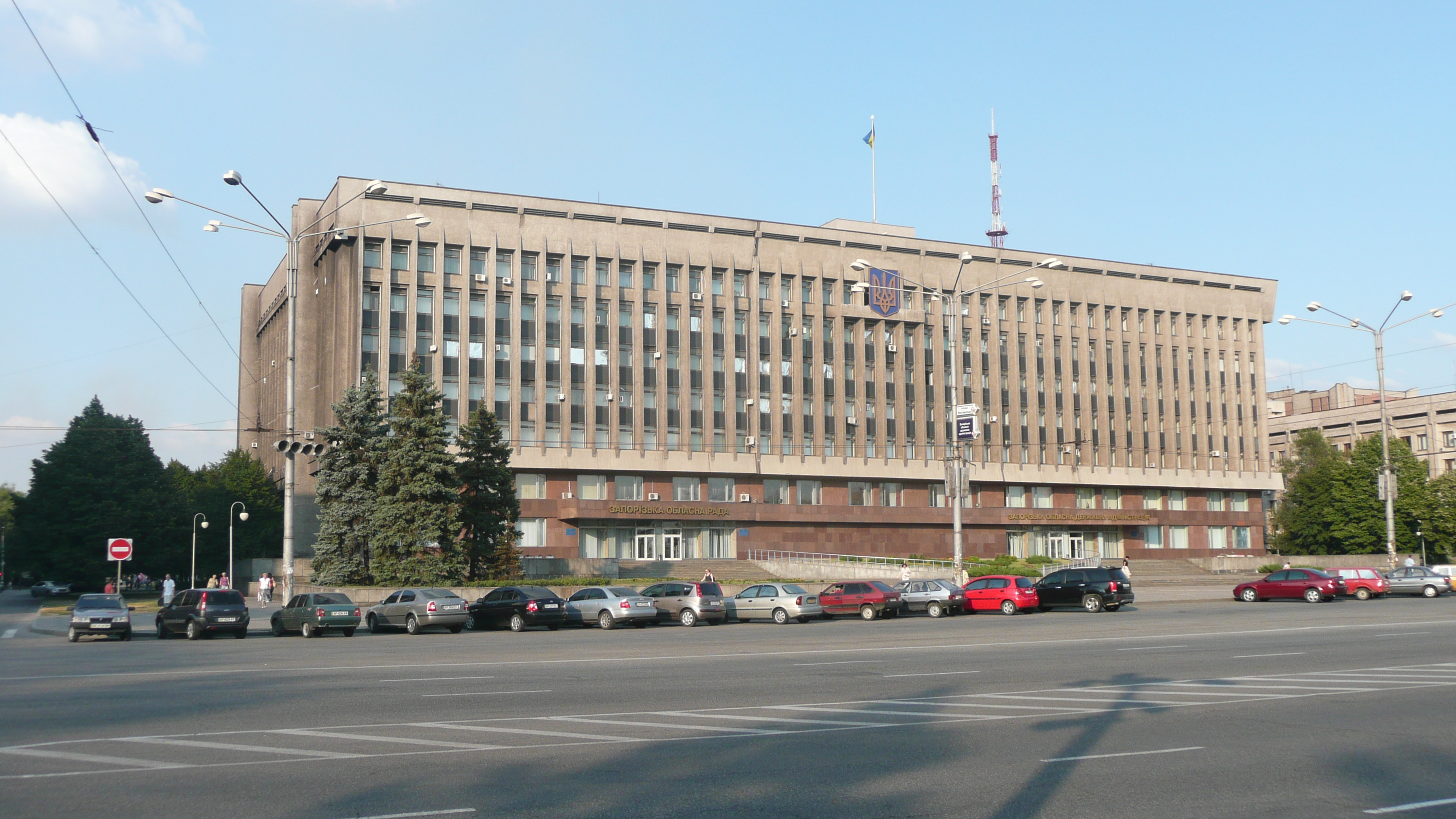 Zaporizhia Regional Administration